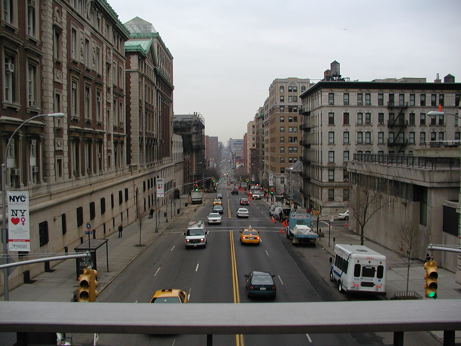 View of Amsterdam Avenue looking north from the Columbia University overpass. (The elevated courtyard spans across Amsterdam Avenue between West 116th and 117th Streets.) I (Petri Krohn) took this picture in March 2005. Category:Photographs by User:Petri Krohn